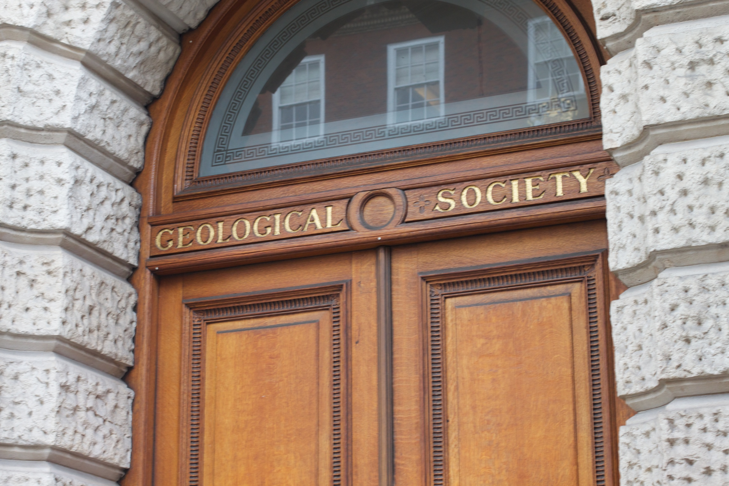 The Geological Society of London is where the field began.